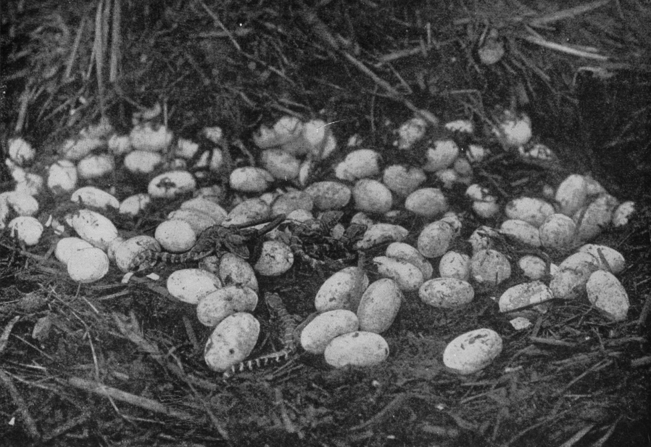 Alligator eggs and young alligators just hatched